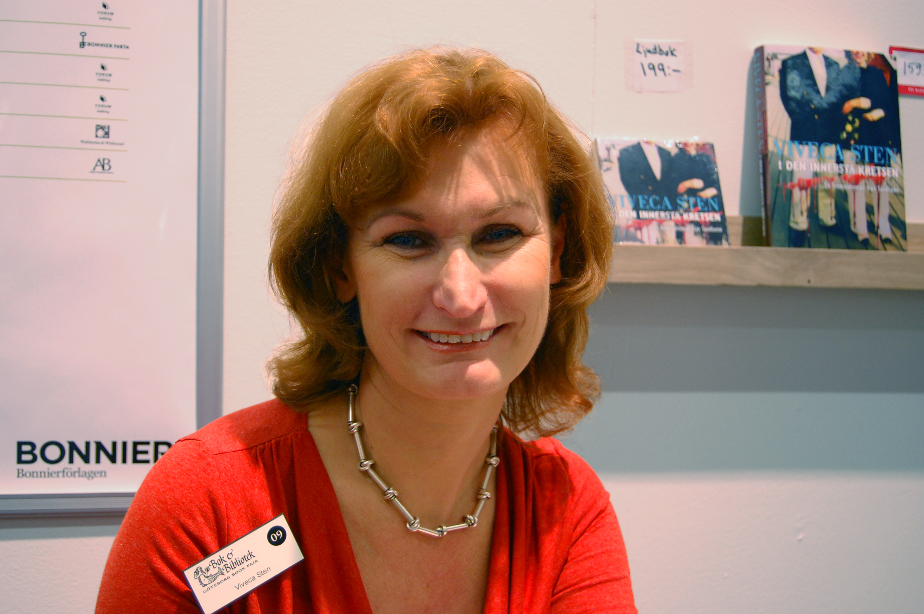 Viveca Sten at the Gothenburg Book Fair 2009